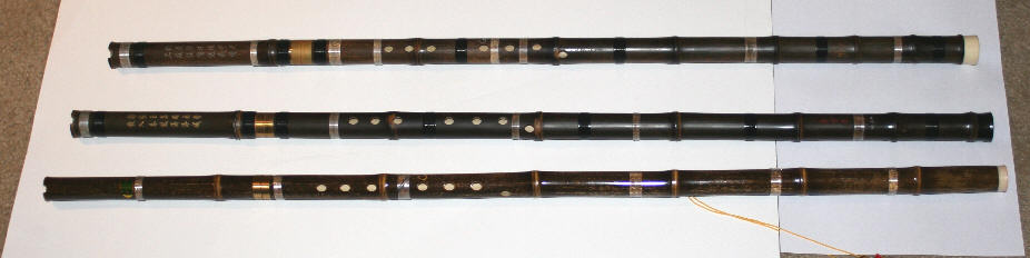 Several Chinese Xiao Flutes, one made by Dong Xuehua